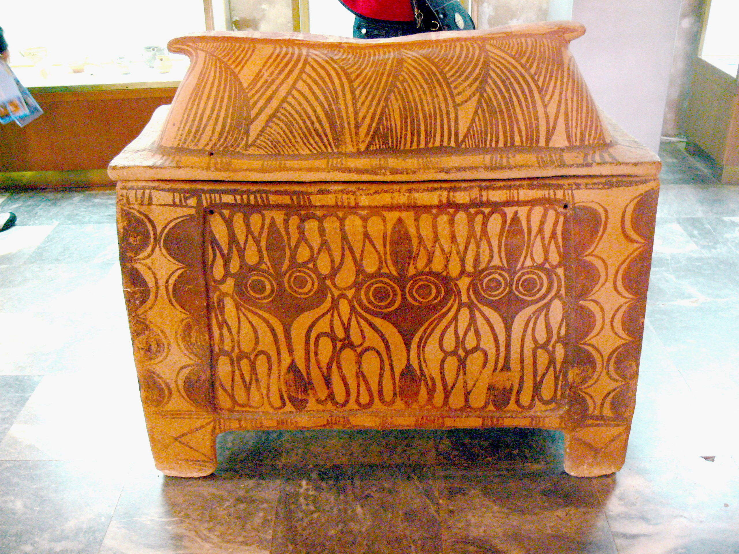 Archaeological Museum in Chania. Late minoan sarcophagus from the necropolis of Armeni, 1400-1200 B.C.